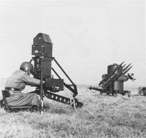 BAC Rapier fielded